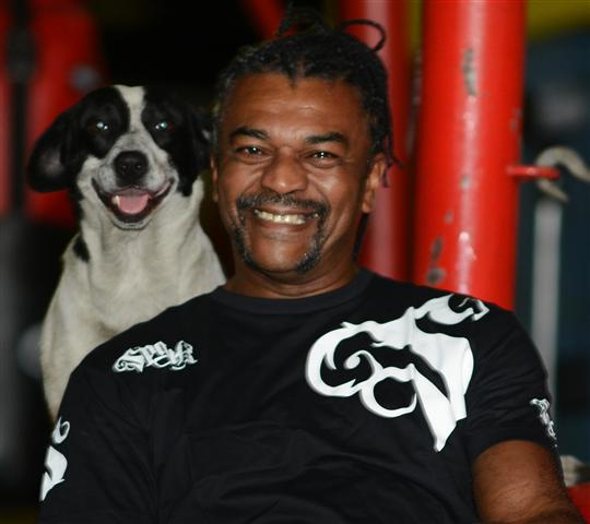 Nilson Garrido "Boxe"